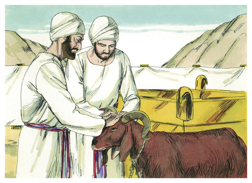 Biblical illustration of Book of Exodus Chapter 30